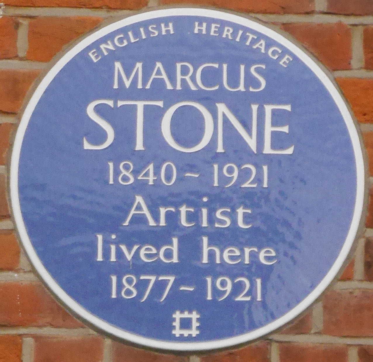 8 Melbury Road W14 Wikidata has entry Q4645237 with data related to this building.